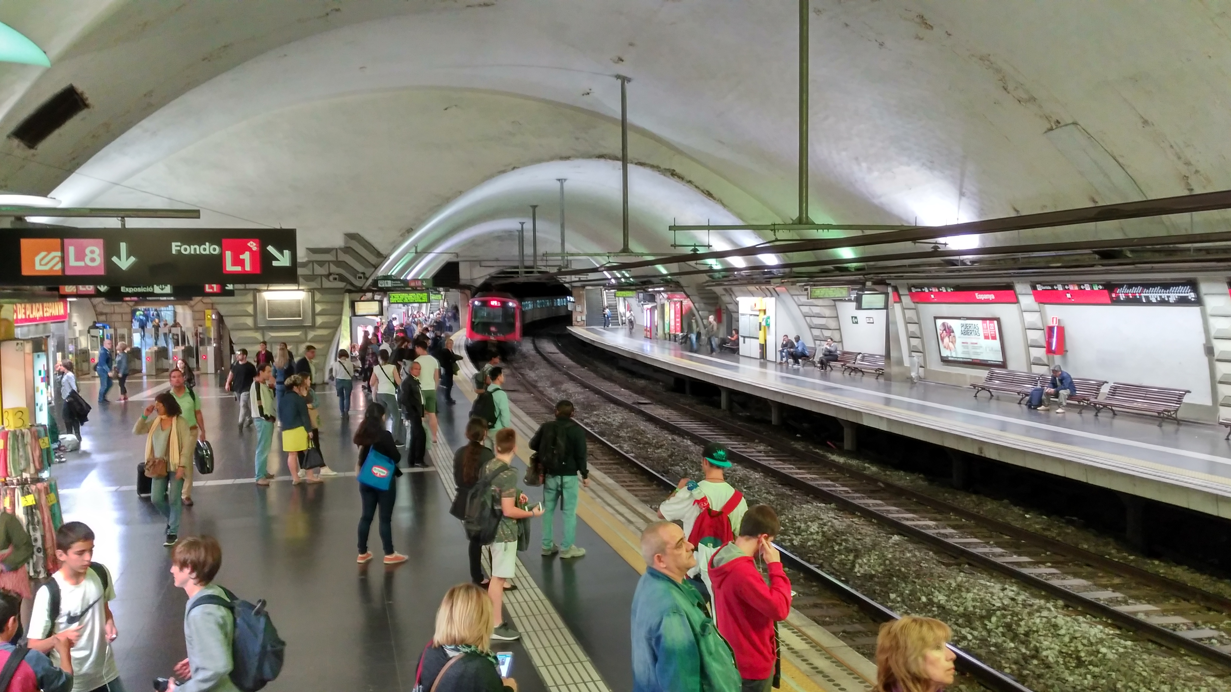 General view of Espanya L1 station